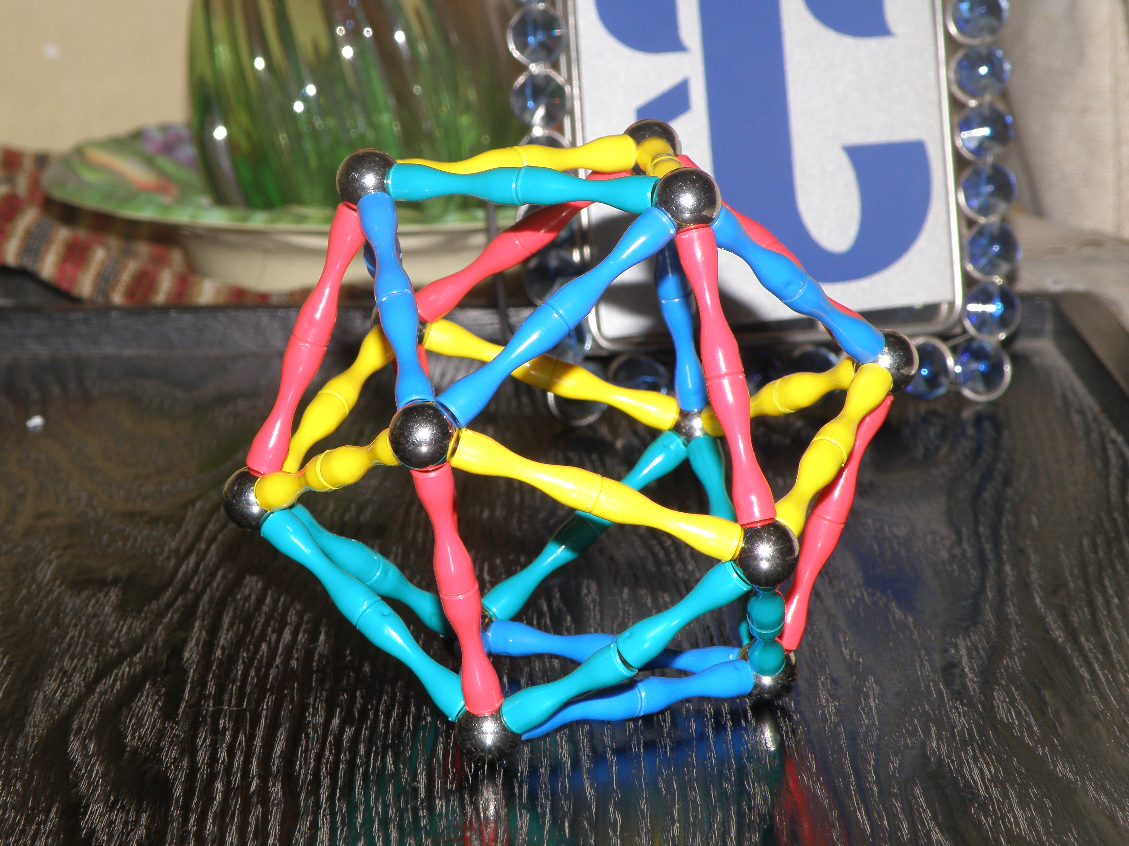 Model of an Icosahedron made with balls and magnetic connectors.